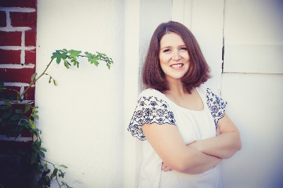 German writer and journalist Tanja Monique Bruske-Guth